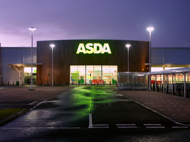 Asda got out out of bed early? To take this photo? Yes. A dawn photo of one of the local purveyors of weekly necessities. The property holding arm of Asda bought this industrial area in Dalgety Bay for just under £9m earlier this year from Stockland Halladale who in turn snapped up the 11.7 acre site for under £2m from BAE Systems in 2005. Asda occupy about half the area on the site of the former John Sutcliffe building. That's a nice return in my book. Seems a hefty price for industrial land though. Good for Asda/Halladale that the Council didn't listen to the local objections and allowed it through on appeal. However it's here now and it is being used. Tesco seems just as busy as ever. Is it just me or has the addition of competition not resulted in any savings in your purse either? If anything it's had the opposite. Bah! Waitrose or Sainsbury would have worked very well in this area methinks.